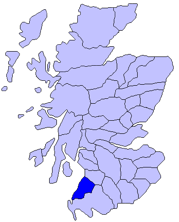 Map showing roughly the district of Carrick in Scotland.